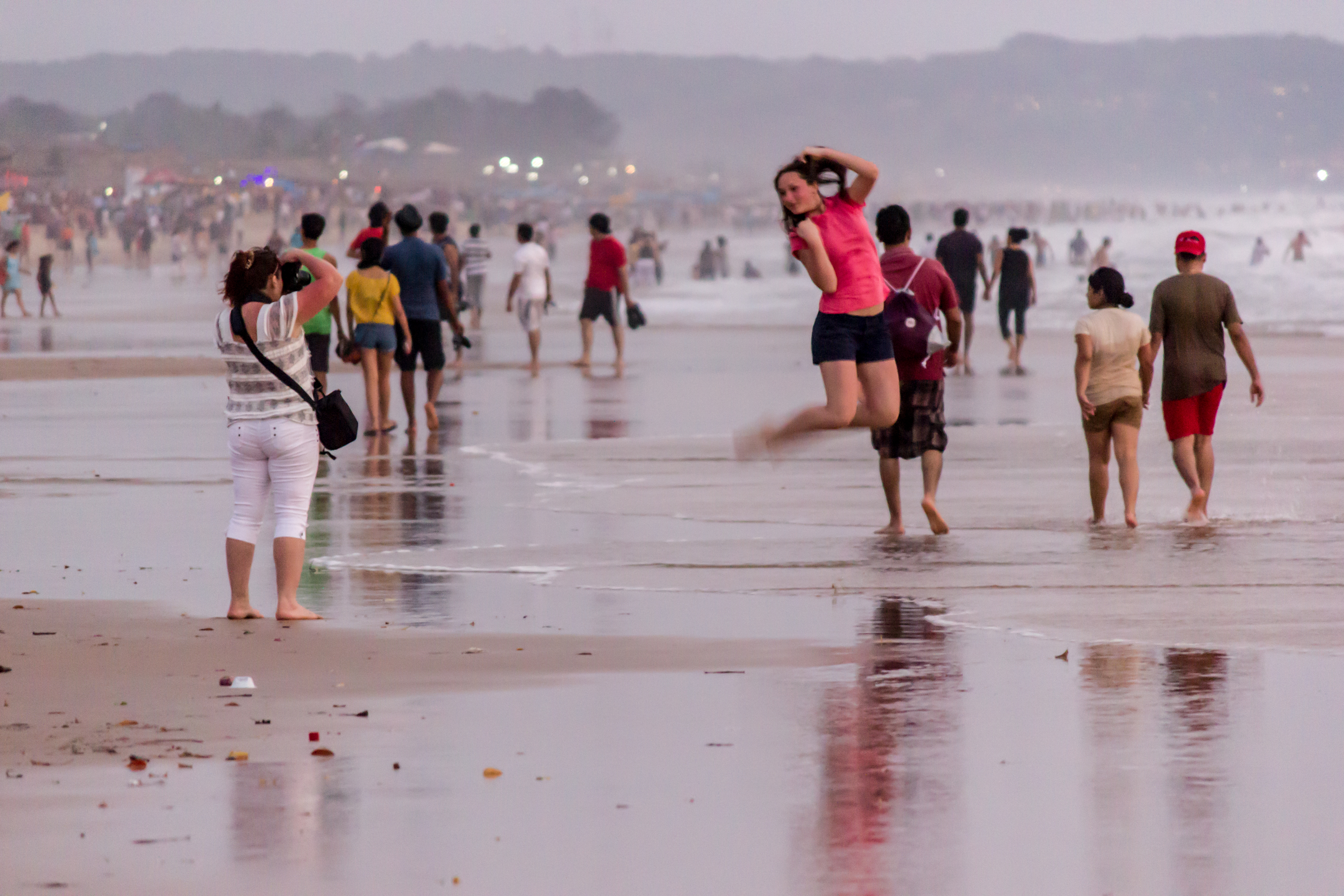 Goa beaches Tourism, life in India India March 2013